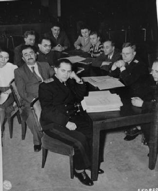 The Soviet prosecution team at the International Military Tribunal trial of war criminals at Nuremberg.